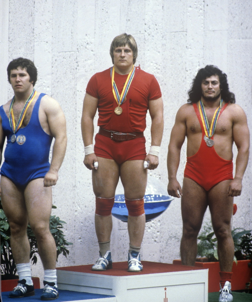 “Winners of the weightlifting competition in the 1980 Olympics”. XXII Olympic Games. Winners of the weightlifting competition, 110 kg division. Soviet weightlifter Leonid Taranenko, center, got the gold medal, Valentin Khristov from Bulgaria, left, got the silver and Hungary's Gyorgy Szalai got the bronze. Izmailovo sports palace.